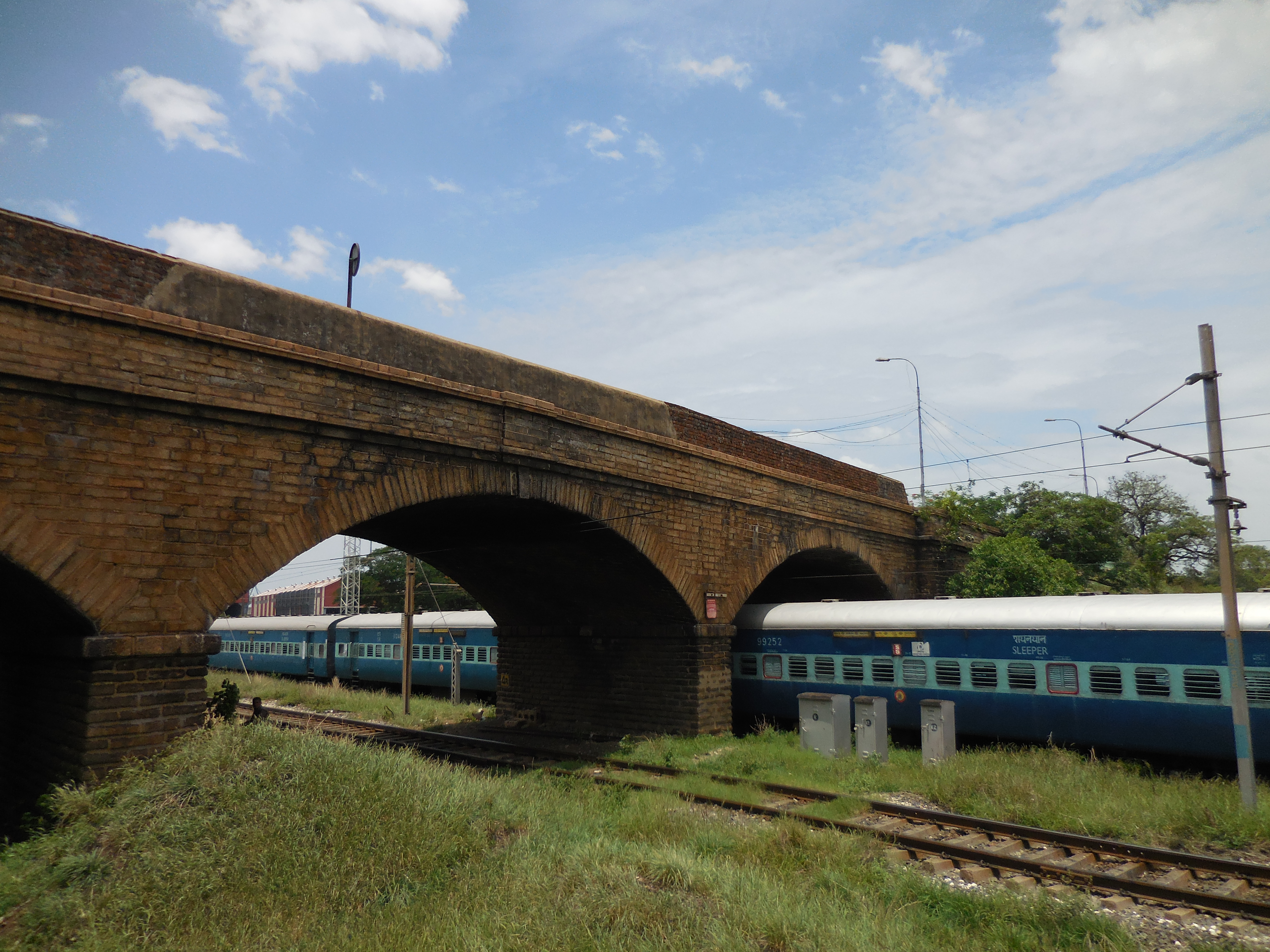 Stone Bridge near Royapuram railway station, Chennai, taken on 15 July 2014 at noon.